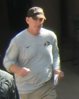 University of Colorado football defensive coordinator Jim Leavitt at Stanford Stadium in 2016.